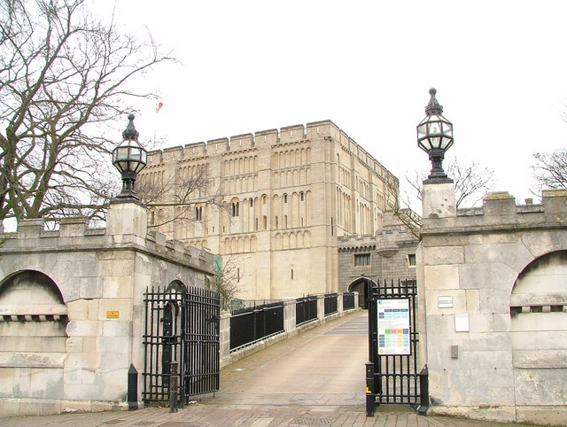 Norwich Castle Norwich Castle was built by the Normans as a Royal Palace 900 years ago. Used as a prison from the 14th century, the Castle became a museum in 1894.